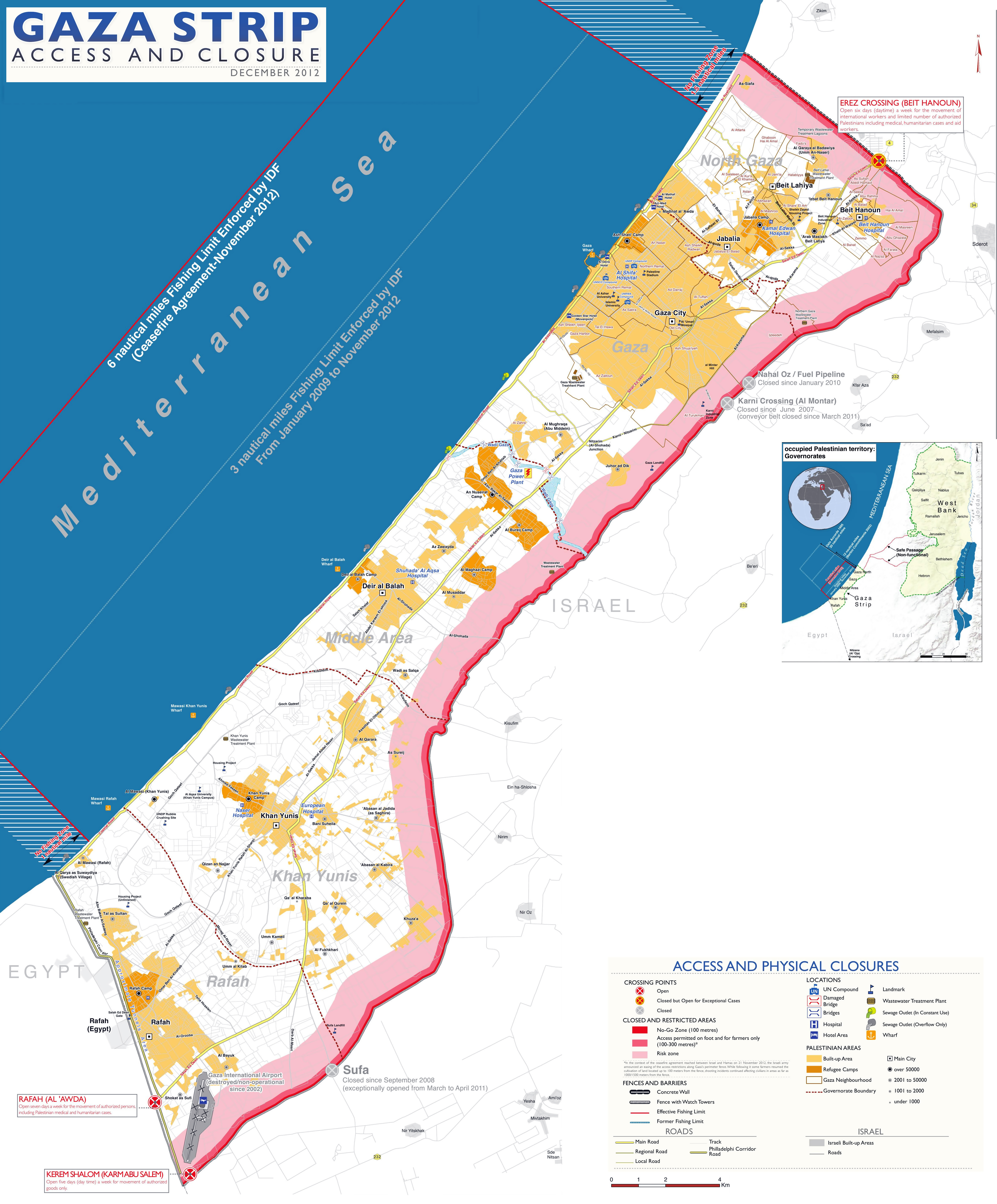 Map of the Gaza Strip showing the border proximity restrictions with Israel as of 2012 No-go zone Access permitted by foot and by farmers only At-risk zone